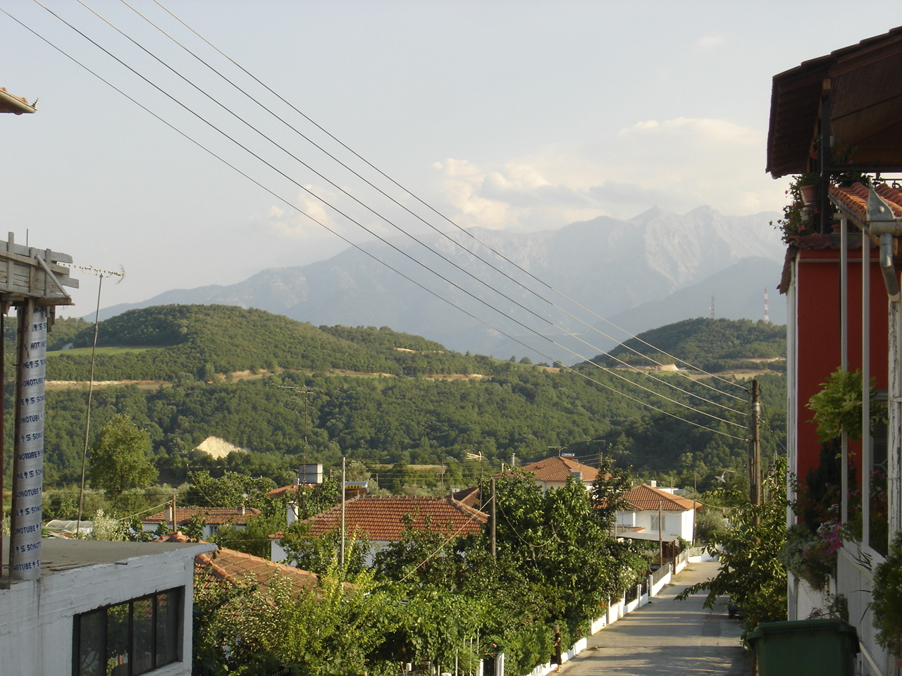 View of Lagorrahi with Pieria Mountains seen.